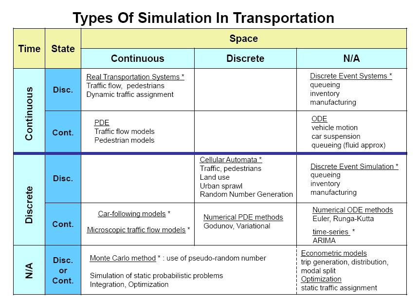 Traffic Simulation table